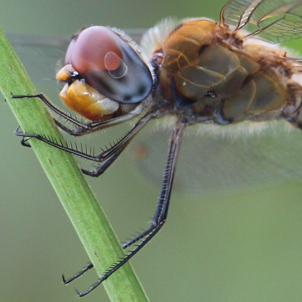 Pantala flavescens, male, in Mie prefecture, Japan.